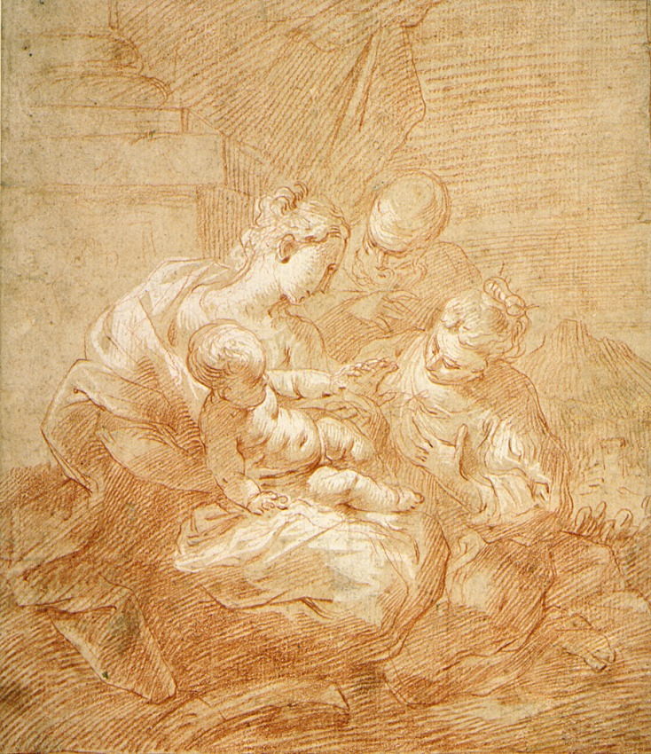 Prints and Drawings